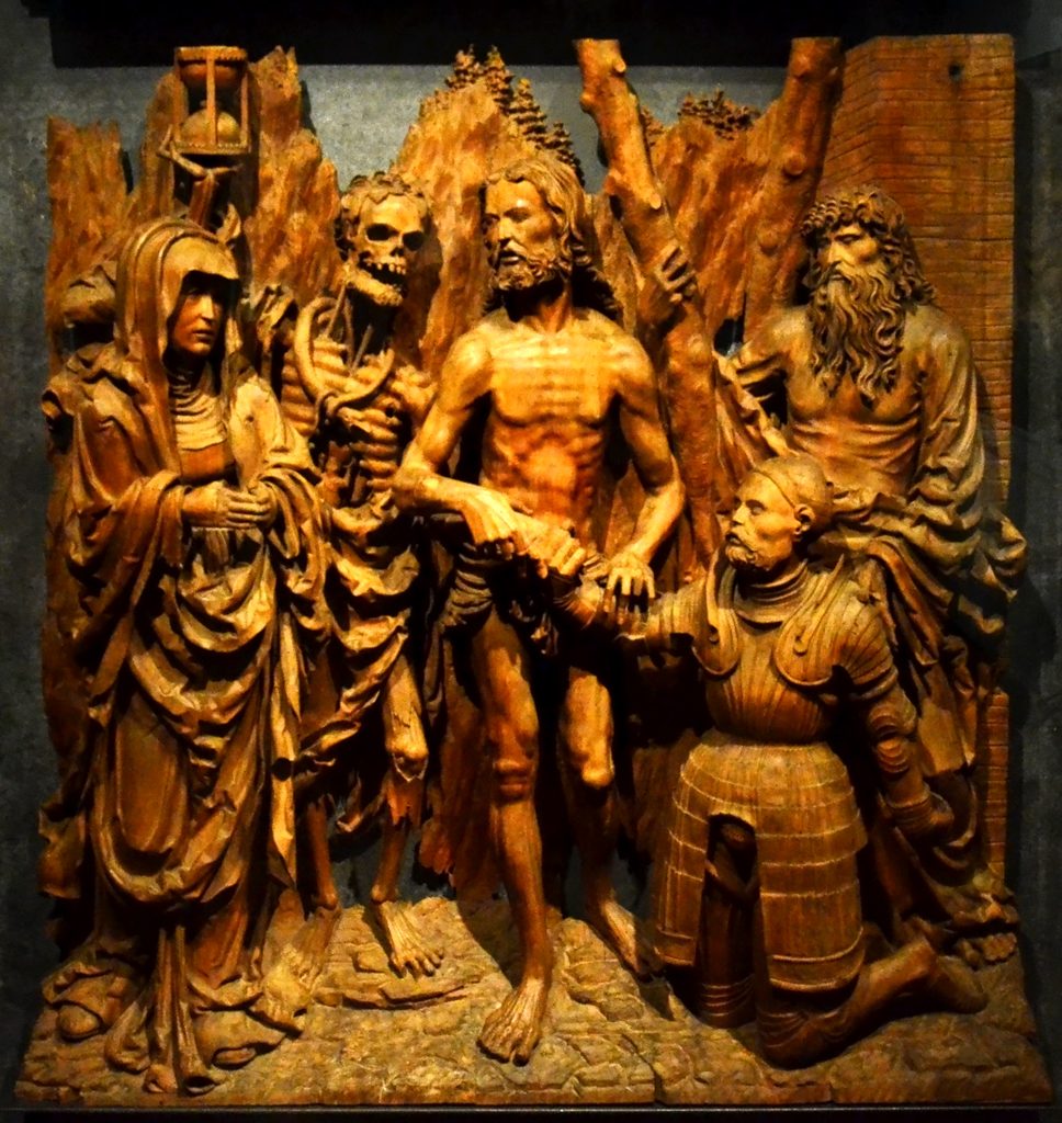 Master IP, Votive altar of Zlichov (part), Christ Saviour, National Gallery in Prague